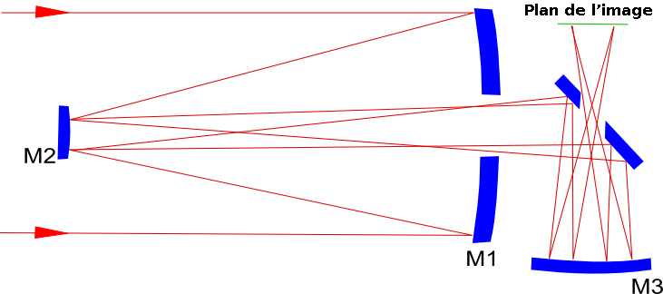 Light Path Korsch Telescop (french version)